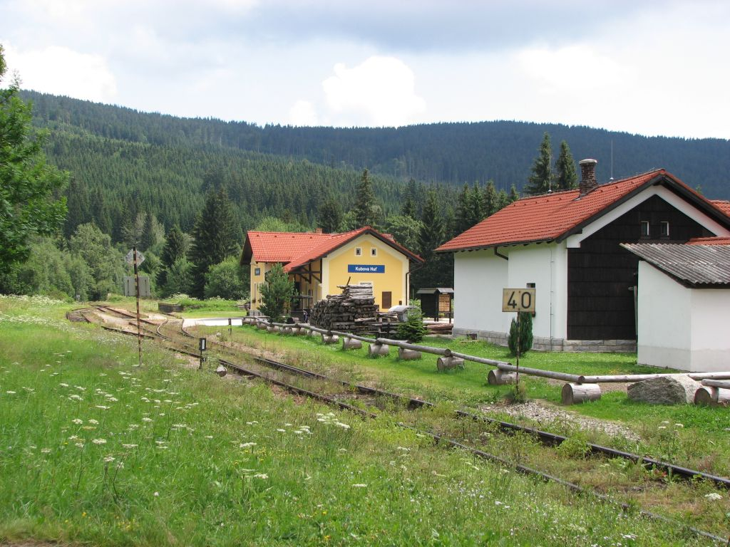 Kubova Huť, with an altitude of 955 m above sea level the highest railway station in the Czech Republic on the Strakonice - Volary line